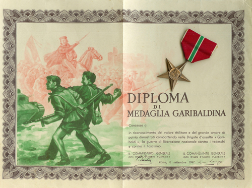 The diploma about rewarding by a medal Garibaldi